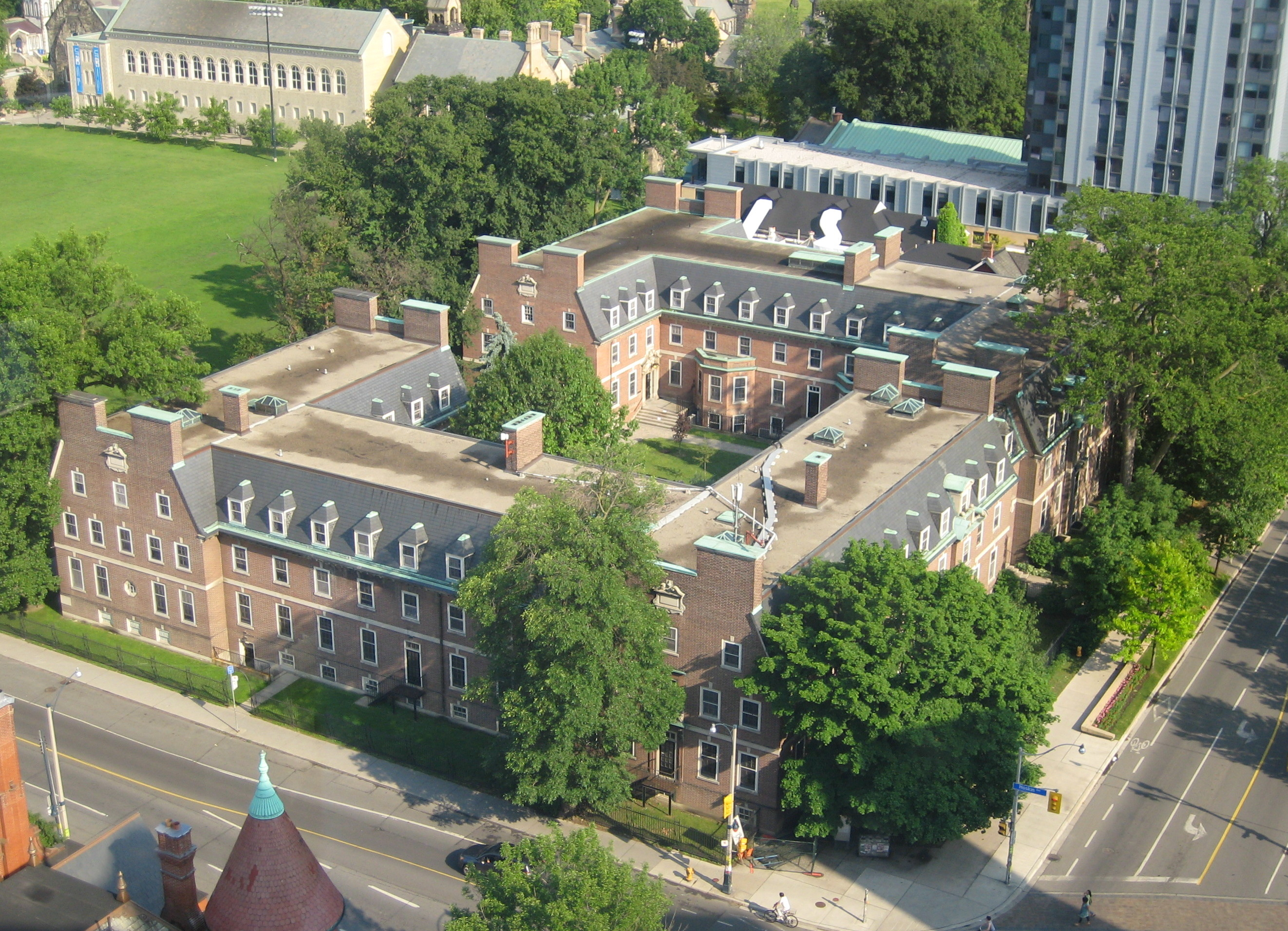 Whitney Hall at the University of Toronto